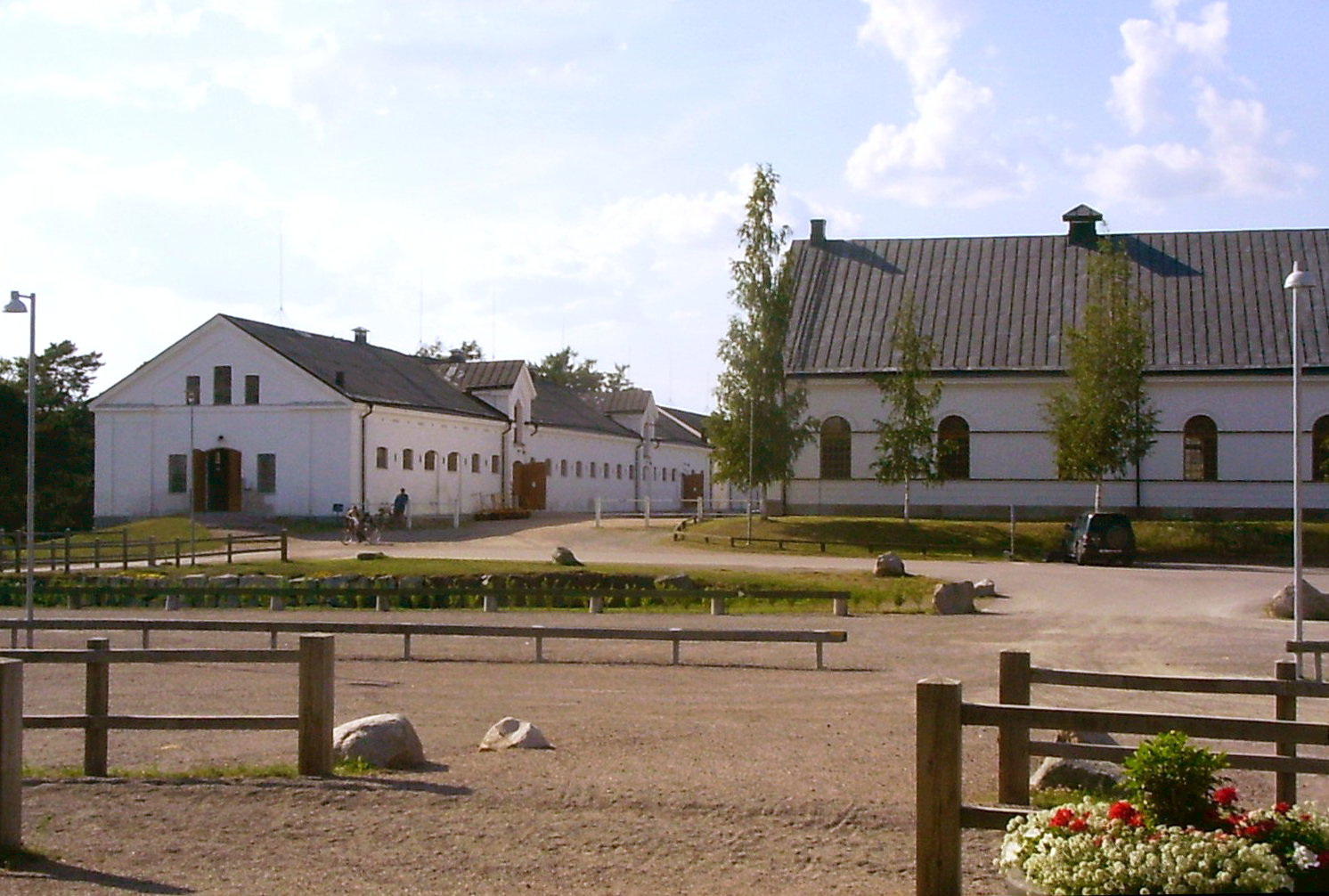 Strömsholm riding center